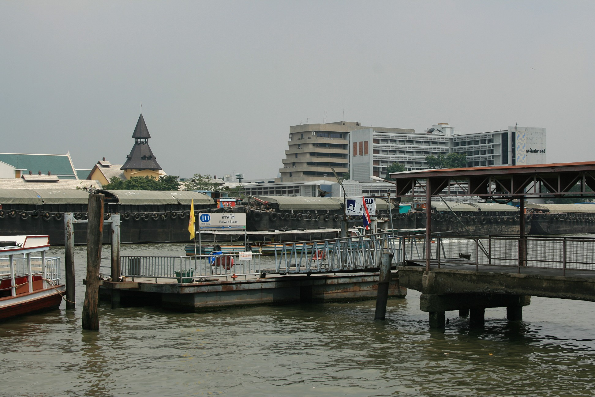 Railway Station Pier, next to the (former) Thonburi railway station